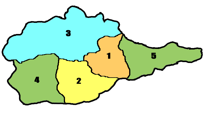 Map of areas of Jewish Autonomous Oblast, Russia